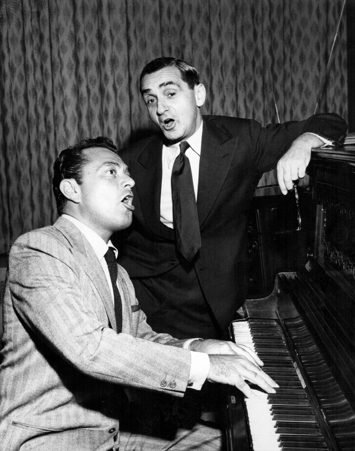 Photo of Irving Berlin and Tony Martin from the television program Irving Berlin's Salute to America.